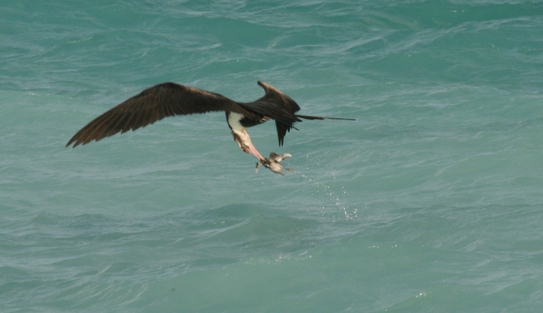 Immature Great Frigatebird snatching prey item (Sooty Tern chick dropped by another frigatebird) from ocean surface.